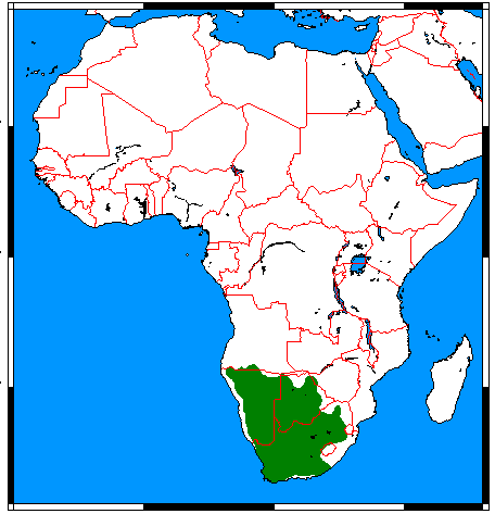 Range map for Yellow Mongoose (Cynictis penicillata), made by me with help of Map depending on the range map at IUCN red list.